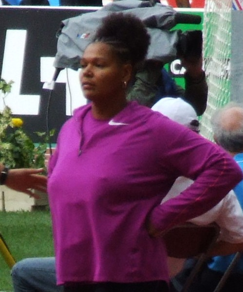 American discus thrower Aretha Thurmond during the 2010 Meeting Areva, the ninth stage of the 2010 Diamond League in Saint-Denis, Paris.